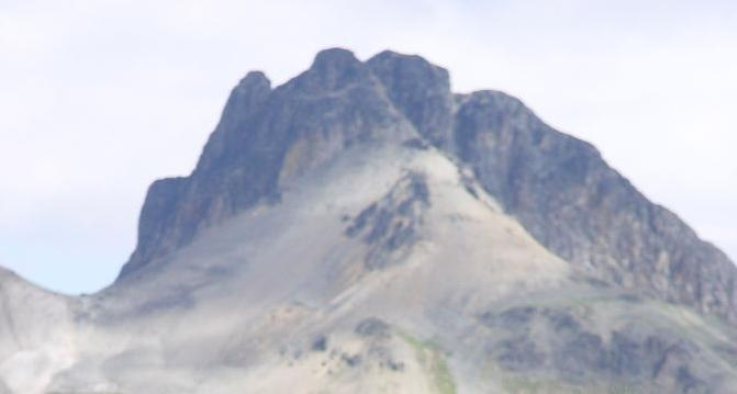 Summit of Chipmunk Mountain in southwestern British Columbia, Canada.